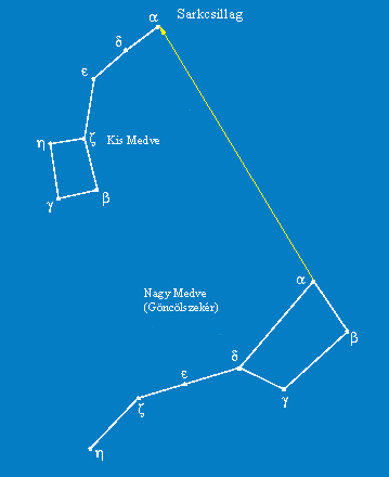 Az észak meghatározása a Sarkcsillag segítségével